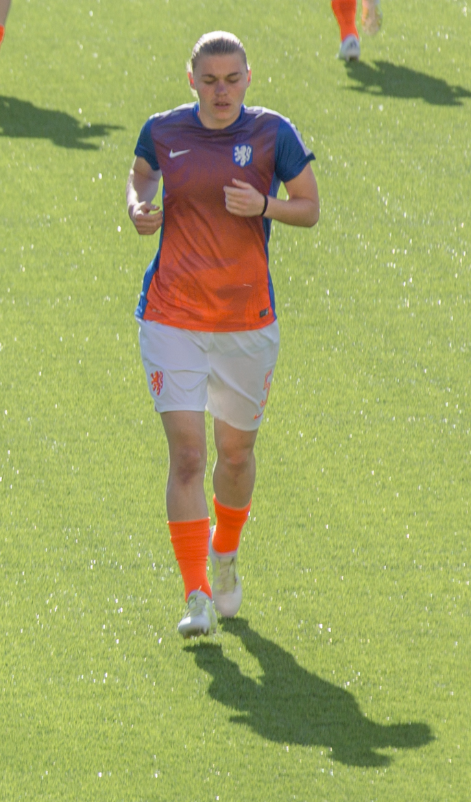 The 2015 FIFA Women's World Cup is the seventh FIFA Women's World Cup, the quadrennial international women's football world championship tournament. The tournament will be held from 6 June to 5 July 2015. New Zealand v. Netherlands Match Highlights